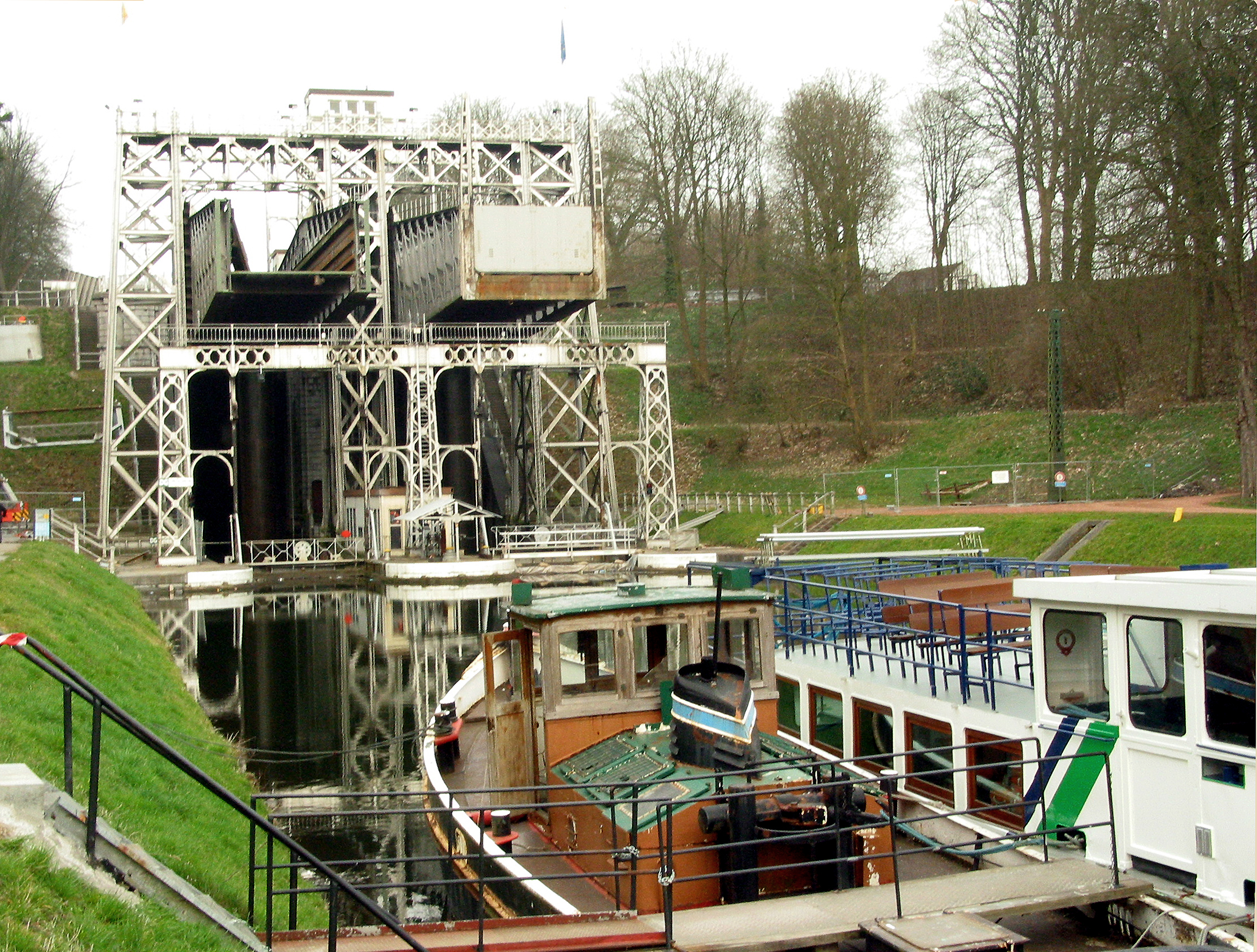 Strépy-Bracquegnies (Belgium), the hydraulic ship elevator number 3.